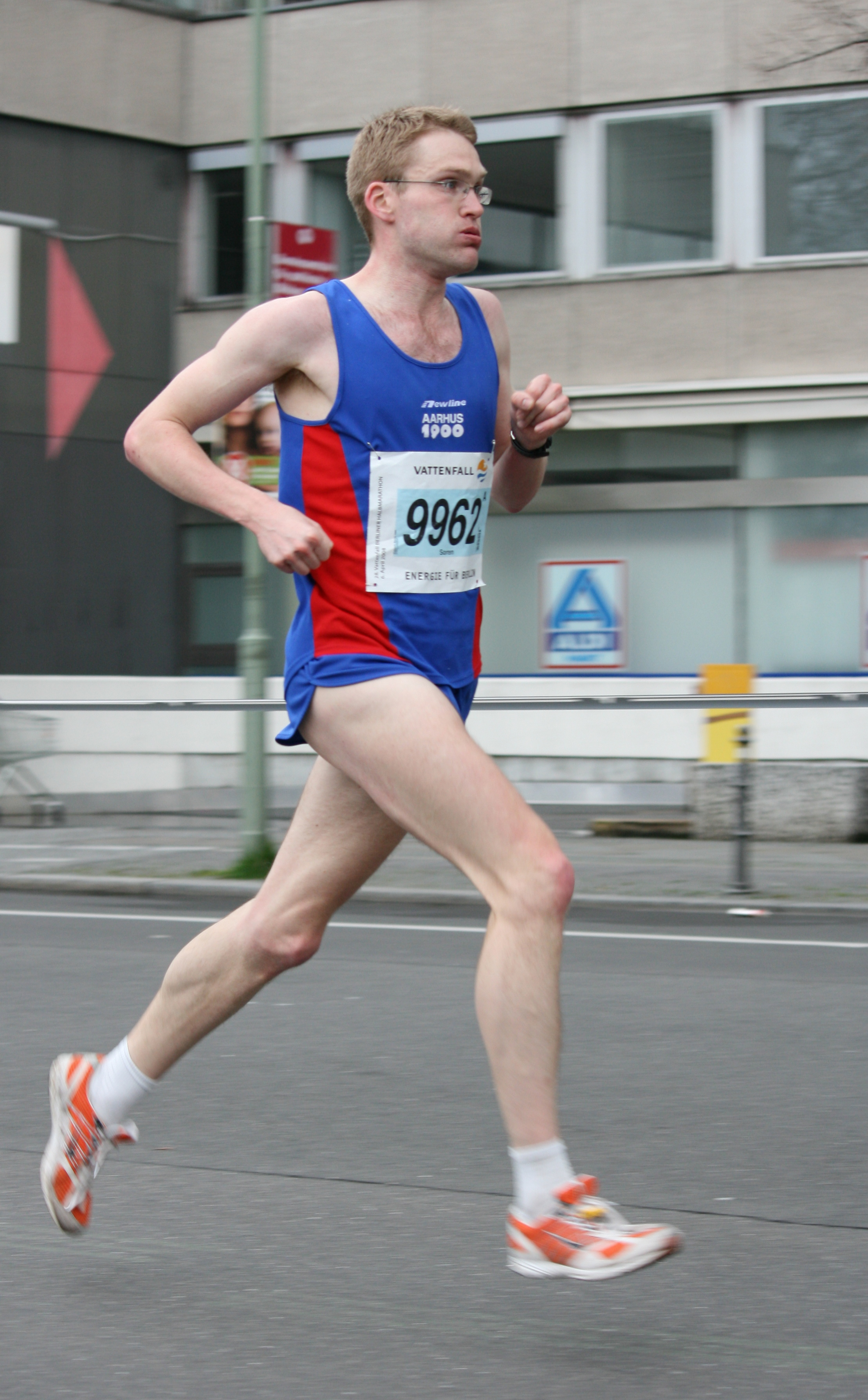 Søren Molbech at the Berliner Halbmarathon 2008